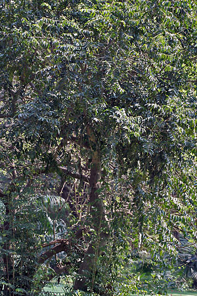 Drypetes roxburghii syn. Putranjiva roxburghii in Kolkata, West Bengal, India.